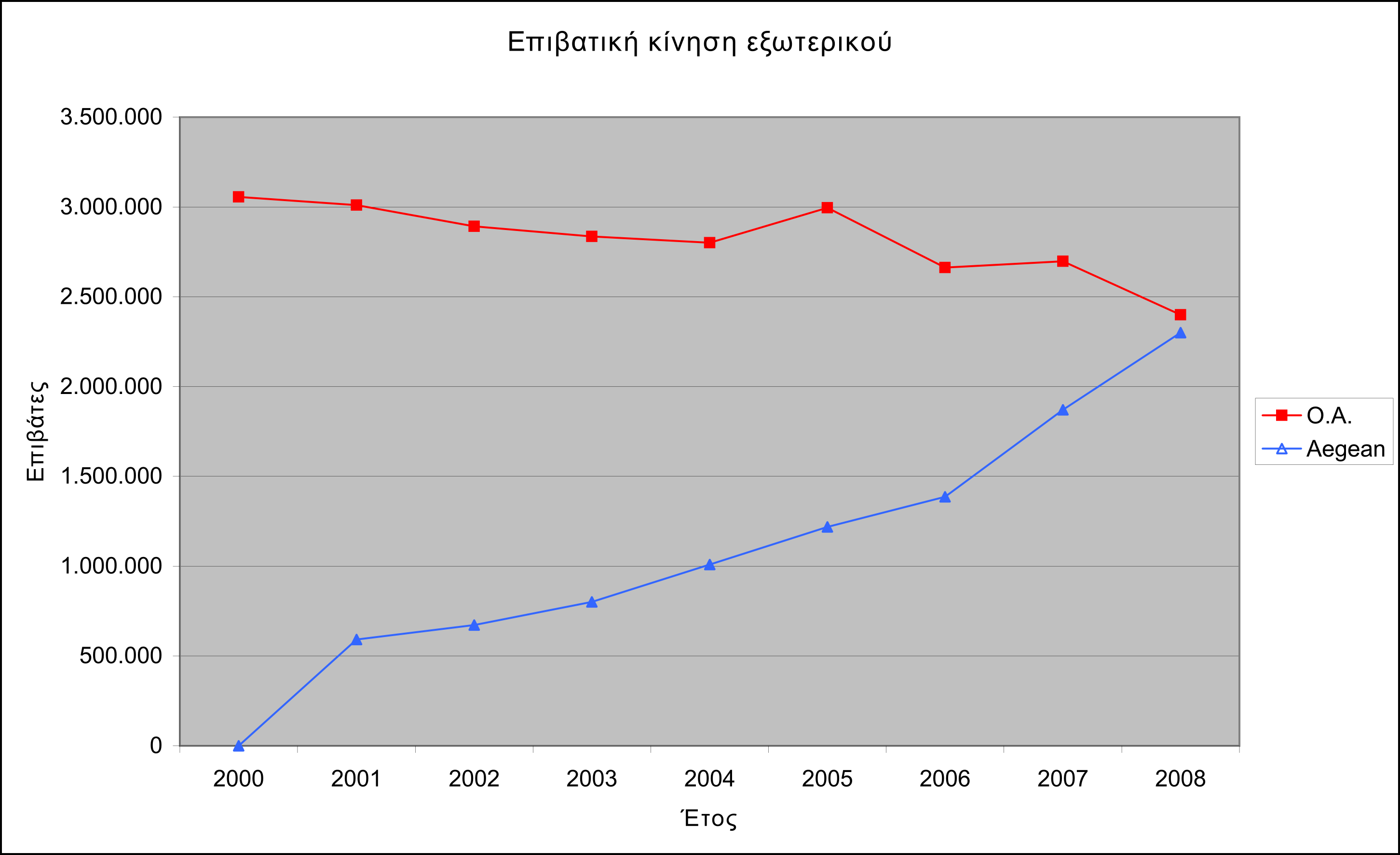 Yearly traffic data for international flights of Olympic Airlines (OA) and Aegean Airlines between 2000-2008. Data from (2000-2007), (2008).